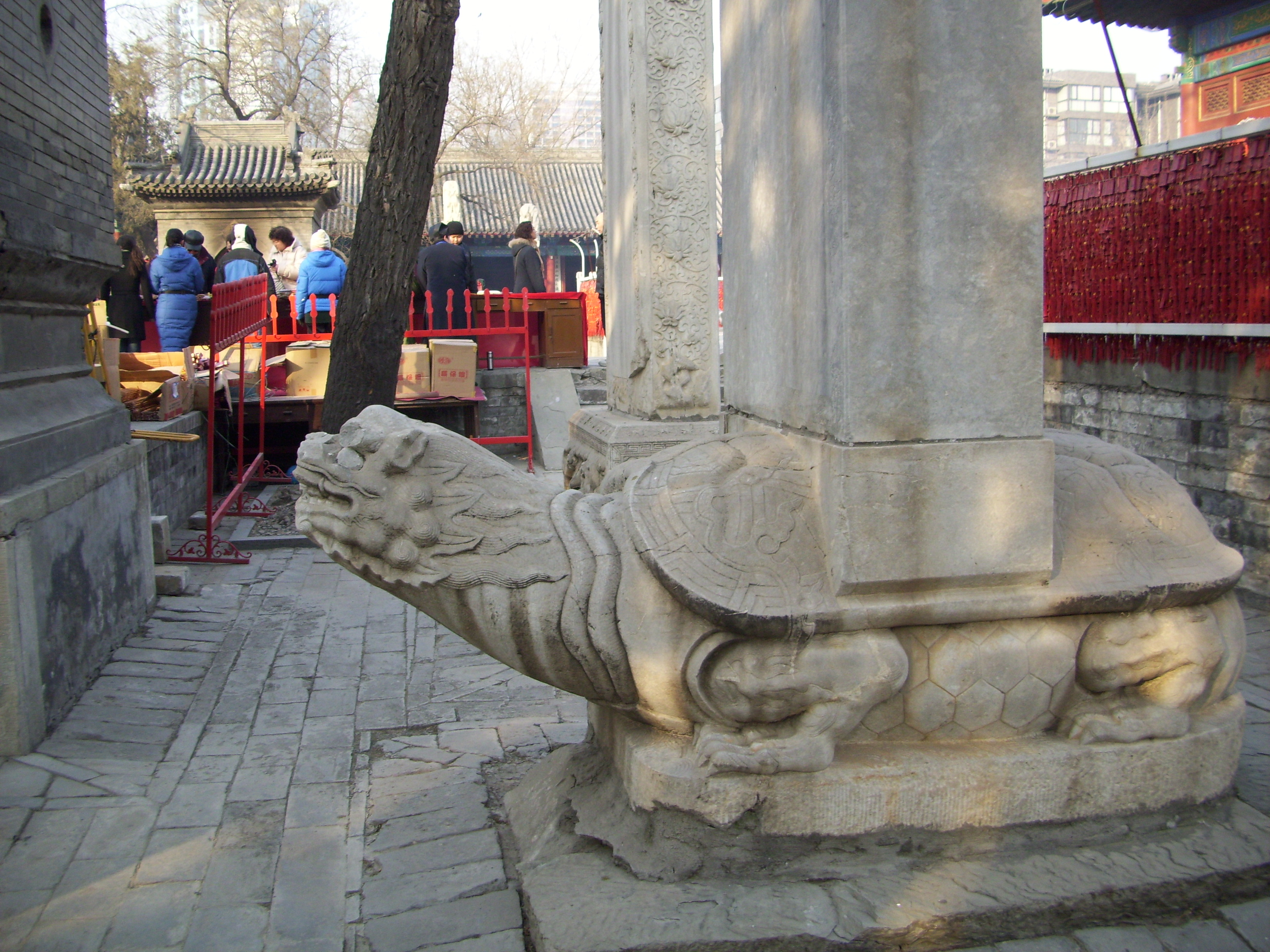 Guifuchishou bei - turtle and Stele